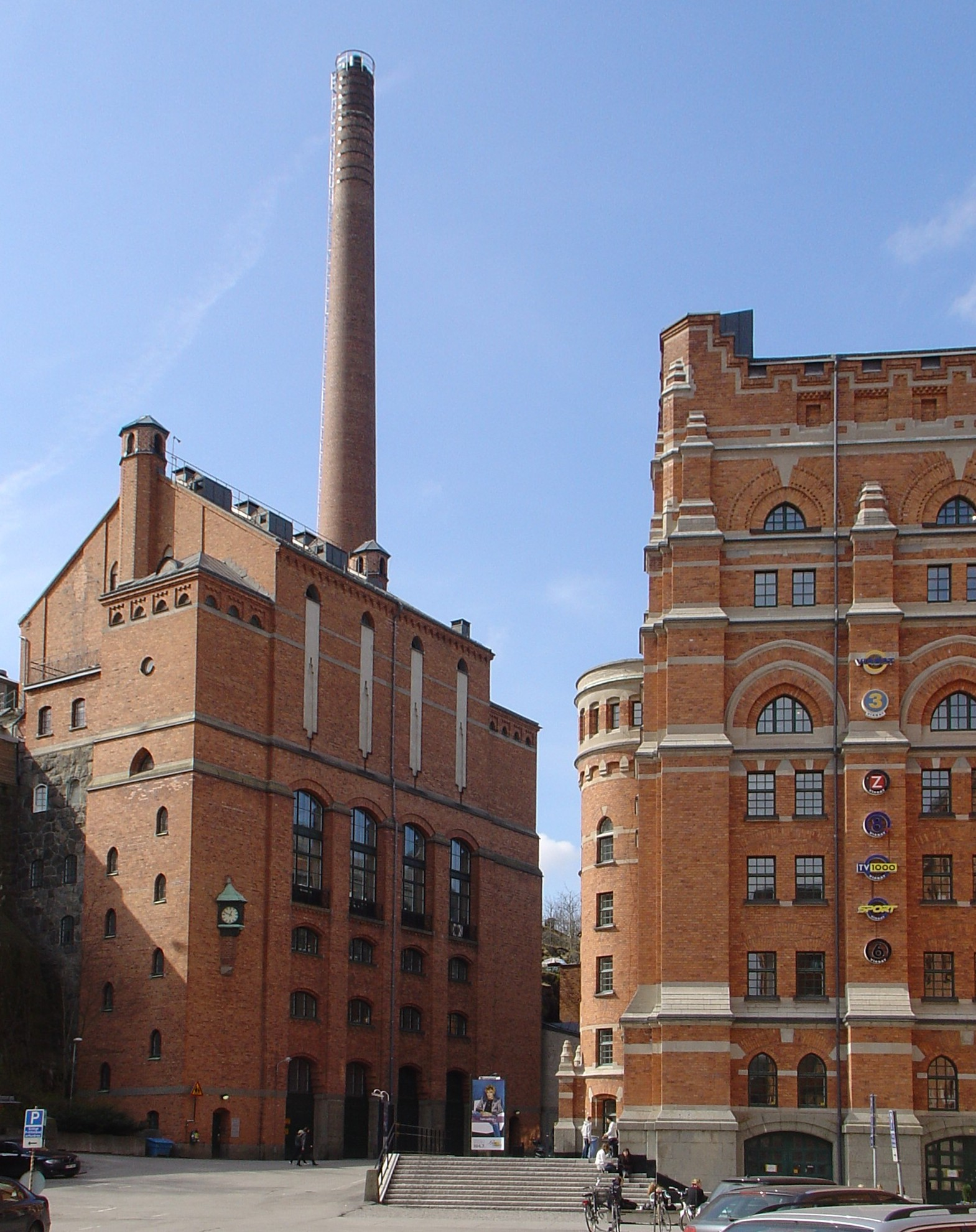 Chimney at Münchenbryggeriet in Stockholm